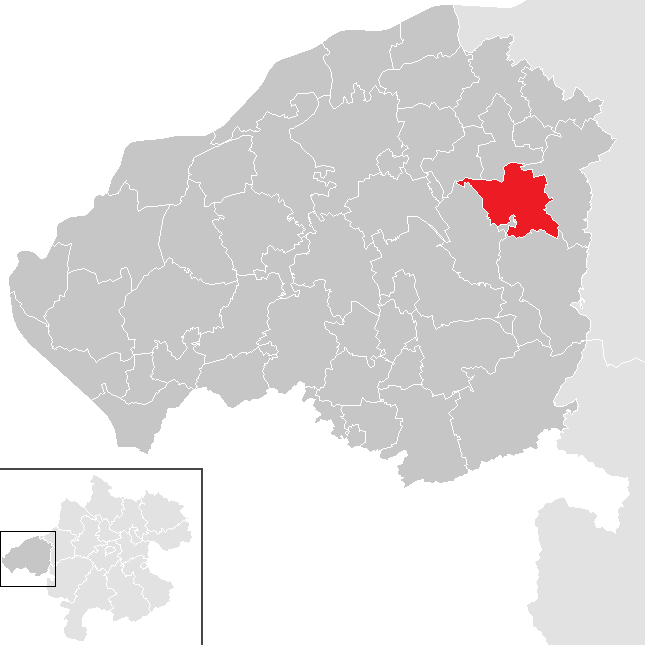 district Braunau am Inn